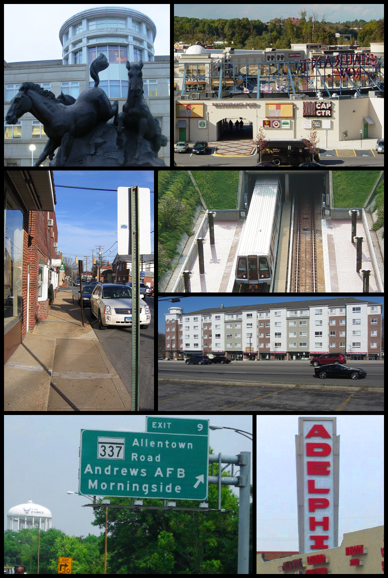 A photographic montage of P.G. County, Maryland, designed for use in Wikipedia infoboxes and the like.